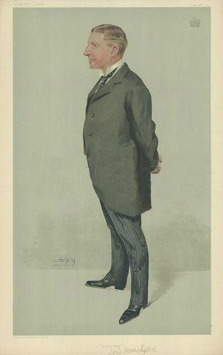 Men of the Day No.0924: Caricature of Lord Inverclyde. Caption reads: "A Cunarder"